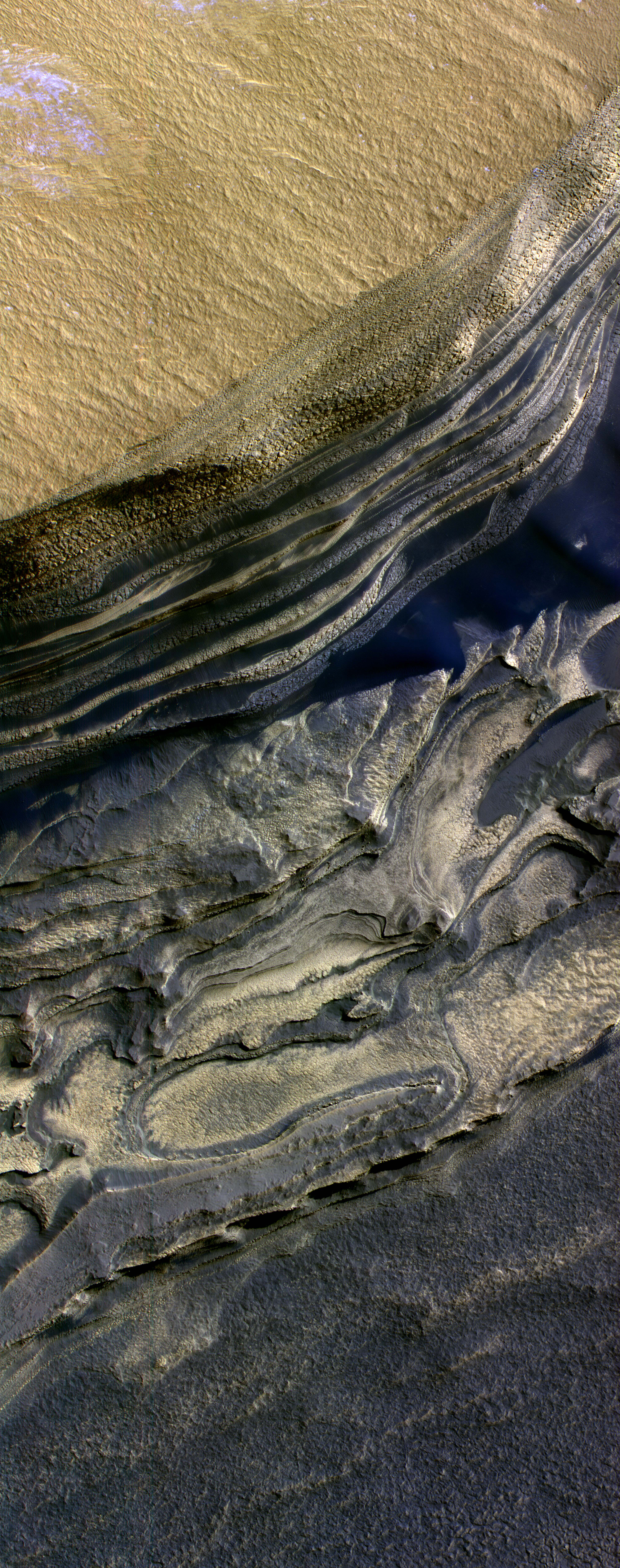 This false-color subframe shows the north polar layered deposits at top and darker materials at bottom exposed in a scarp at the head of Chasma Boreale, a large canyon eroded into the layered deposits. The polar layered deposits appear red because of dust mixed within them, but are ice-rich as indicated by previous observations. The water ice in the layered deposits is probably responsible for the pattern of fractures seen near the top of the scarp. The darker material below the layered deposits may have been deposited as sand dunes, as indicated by the cross-bedding (truncation of curved lines) seen near the middle of the scarp. It appears that brighter, ice-rich layers were deposited between the dark dunes in places. Image PSP_001334_2645 was taken by the High Resolution Imaging Science Experiment (HiRISE) camera onboard the Mars Reconnaissance Orbiter spacecraft on November 8, 2006. The complete image is centered at 84.4 degrees latitude, 343.5 degrees East longitude. The range to the target site was 317.4 km (198.4 miles). At this distance the image scale ranges from 31.8 cm/pixel (with 1 x 1 binning) to 63.5 cm/pixel (with 2 x 2 binning). The image shown here [below] has been map-projected to 25 cm/pixel. The image was taken at a local Mars time of 1:38 PM and the scene is illuminated from the west with a solar incidence angle of 67 degrees, thus the sun was about 23 degrees above the horizon. At a solar longitude of 132.3 degrees, the season on Mars is Northern Summer. uploaded by me user debivort